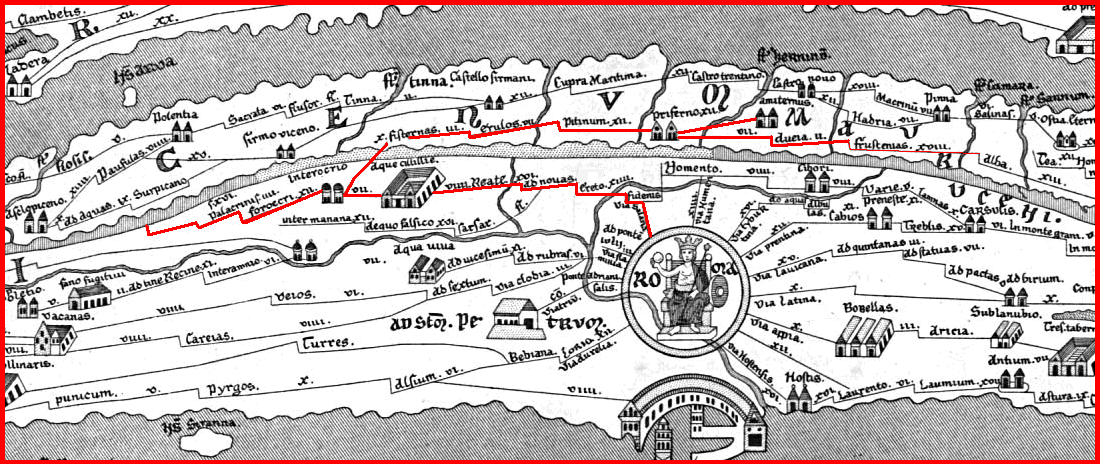 This fragment of a XIX century copy of Peutingerian Tablet (s. IV a.D.) shows on red the Salarian Wey (Via Salaria).